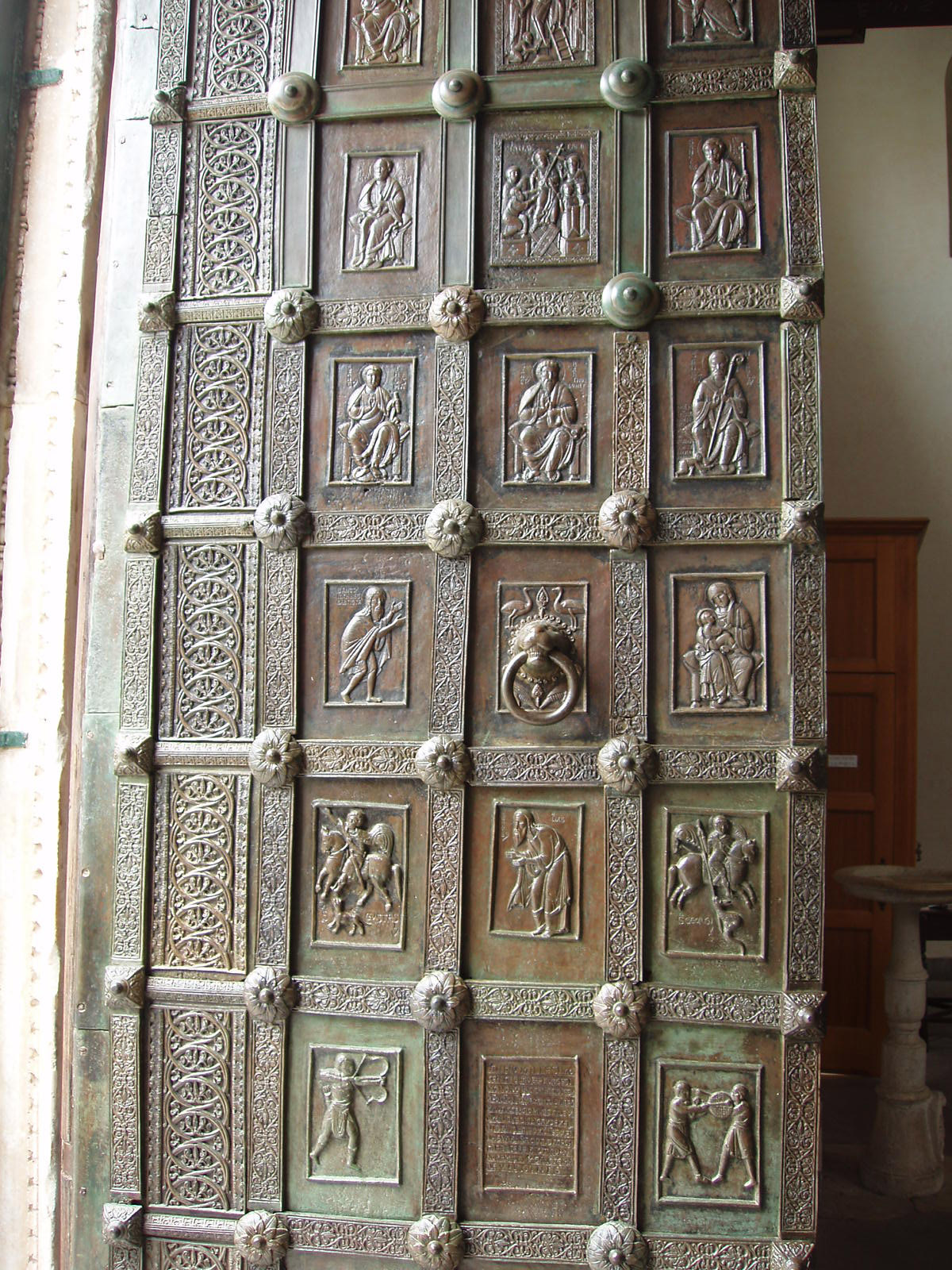 Bronze door of the Ravello Cathedral. Unquestioned date (1179), ordered by Sergio Muscettola, Sigilgaida Pironti's husband. An inscription with the date is on the central panel on the third row of the left jamb. The work is attributed to the sculptor Barisano de Trani.